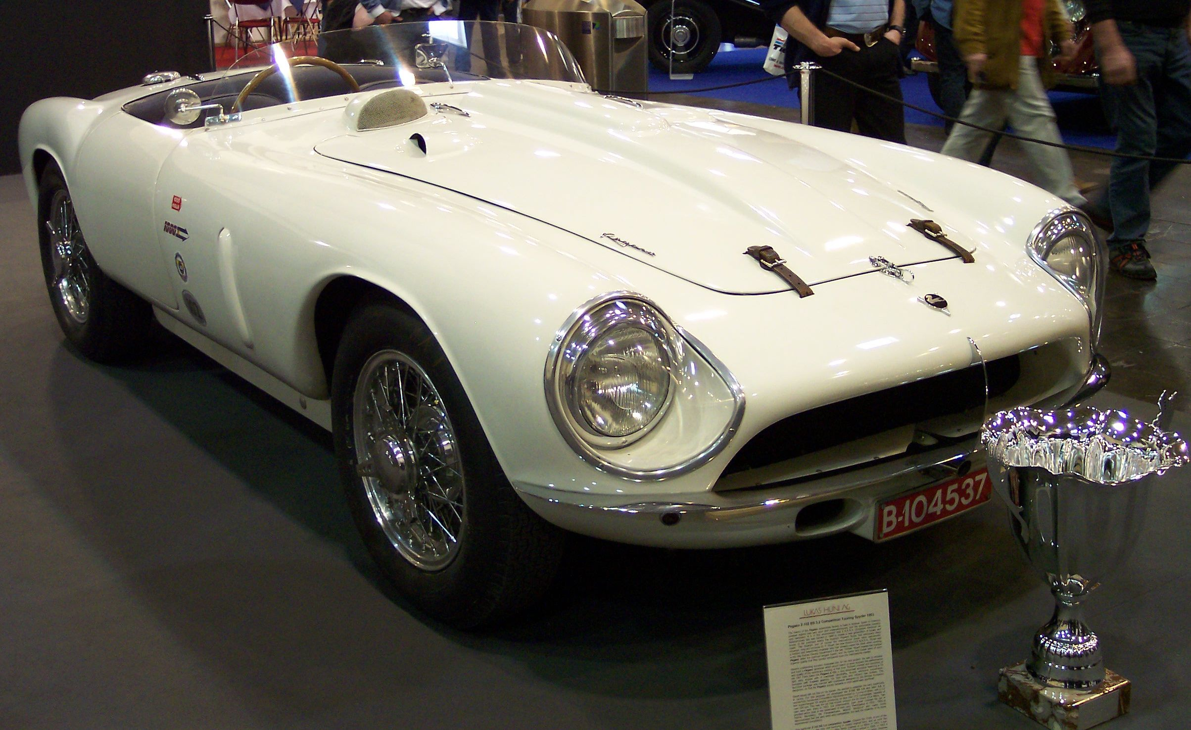 Techno-Classica 2007, Z 102 BS 3.2 Competition Touring Spyder, 198 kw (270 HP) This car is one of three produced cars. After being crashed at Le Mans in 1953, it was repaired at the factory and could participate at races until 1955. In 1963 it was sent to America. The present owner bought it in 1981.